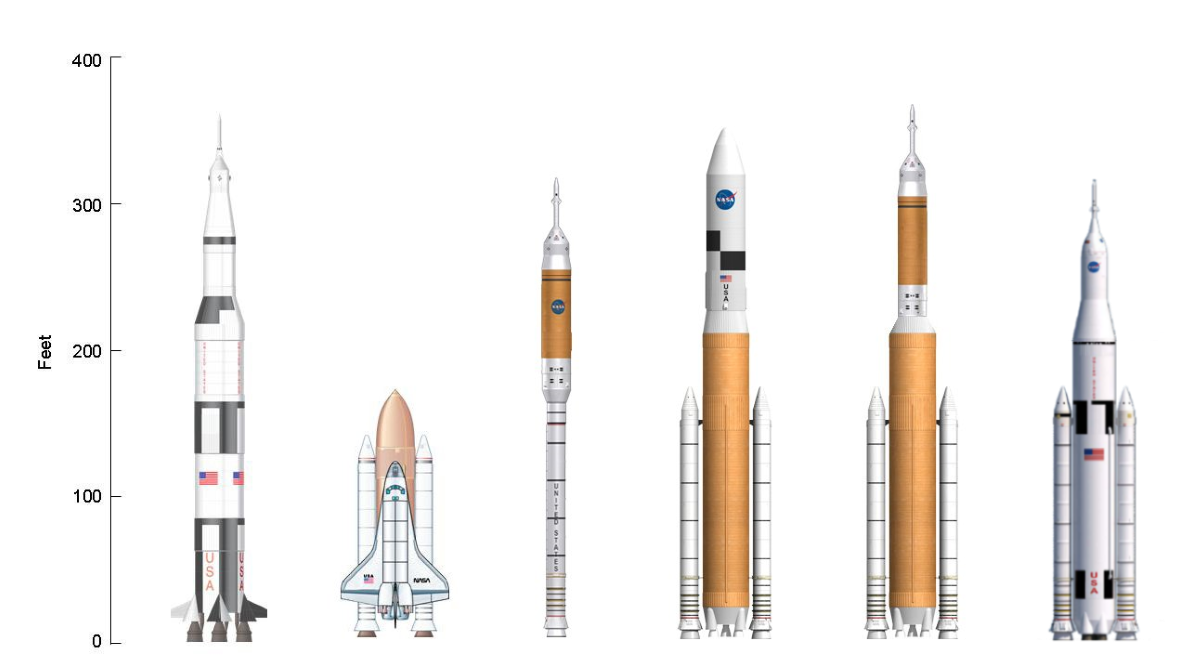 Saturn V-Shuttle-Ares I-Ares V-Ares IV-SLS Block I